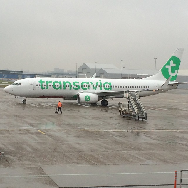 Transavia New Livery